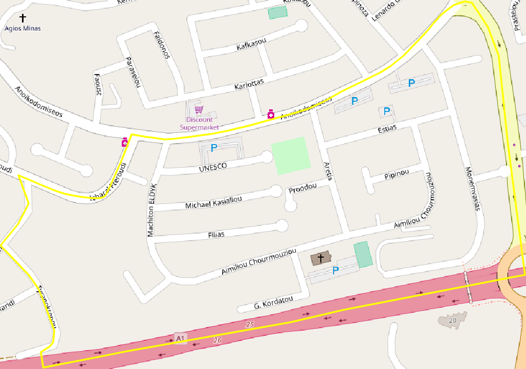 Map of Αpostle Lyke (Agios Athanasios).